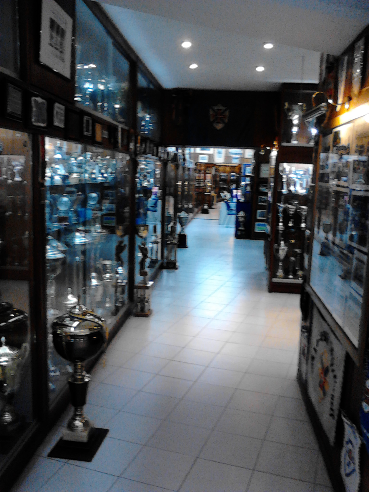 From the entrance to the stairs to the second floor